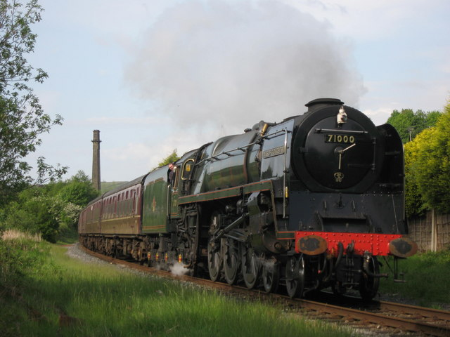 The Duke of Gloucester at Townsend Fold. Locomotive No 71000 'The Duke of Gloucester' heads south towards Ramsbottom at Townsend Fold on the East Lancashire Railway